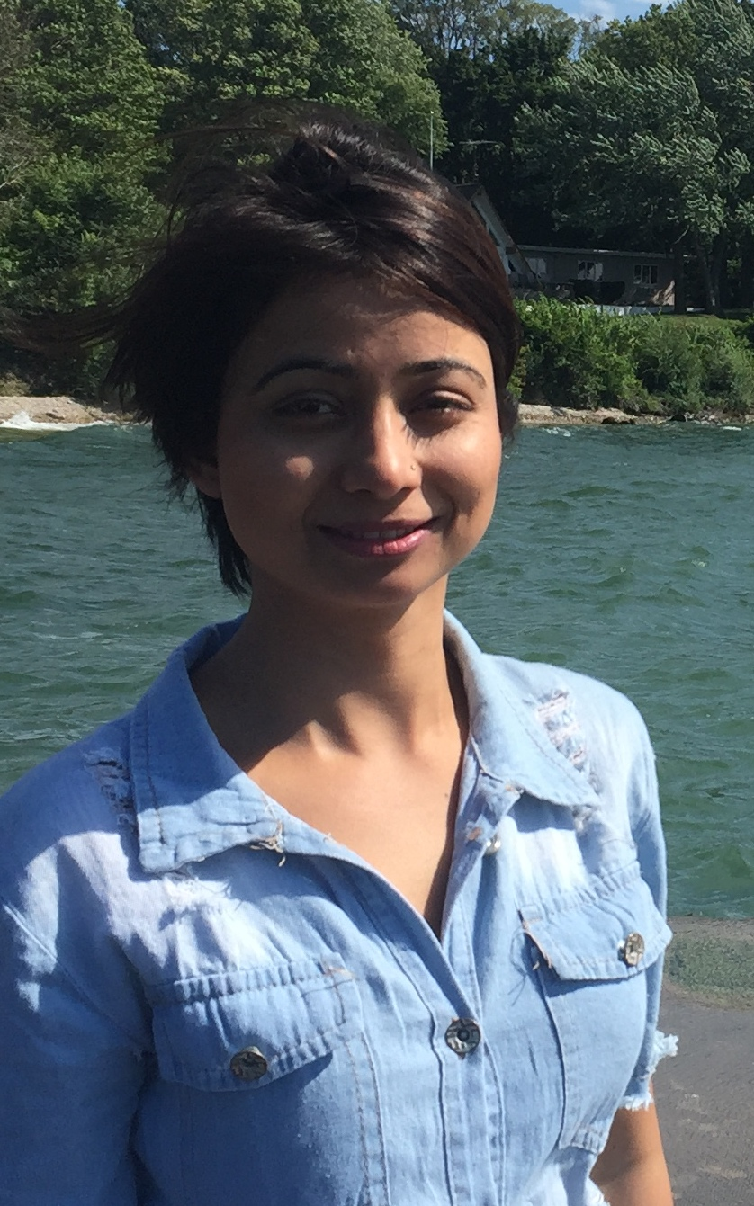 Binita Baral